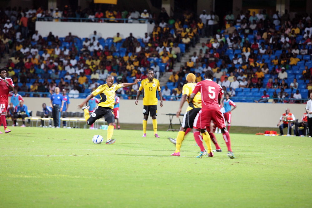 This is a picture of the game winning goal versus Haiti in the 2014 World Cup Qualifying.